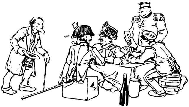 Illustration by Otto Ubbelohde to the fairy tale The Tailor in Heaven